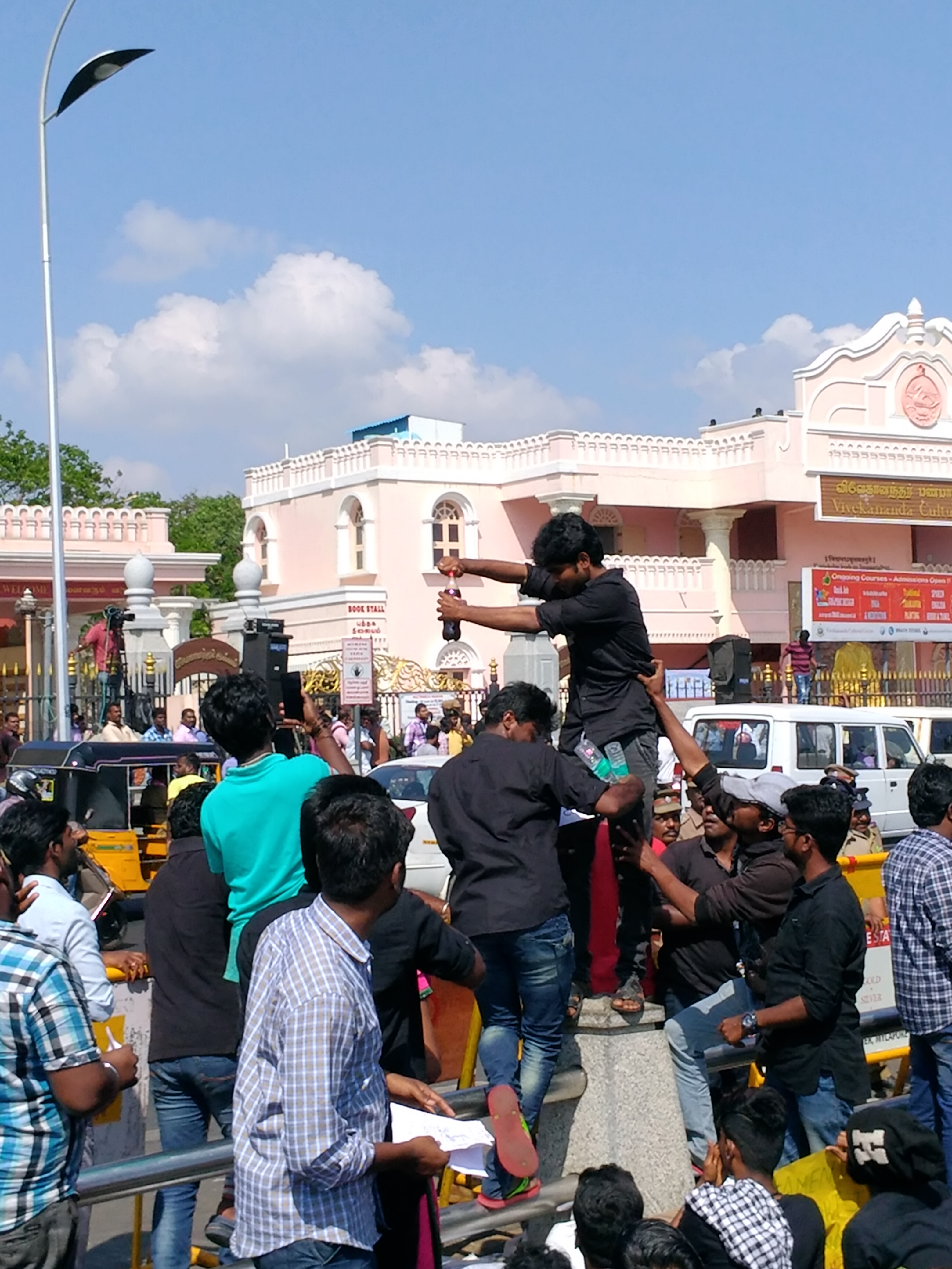 youngsters pouring coke to support jallikattu and stop using foreign products.